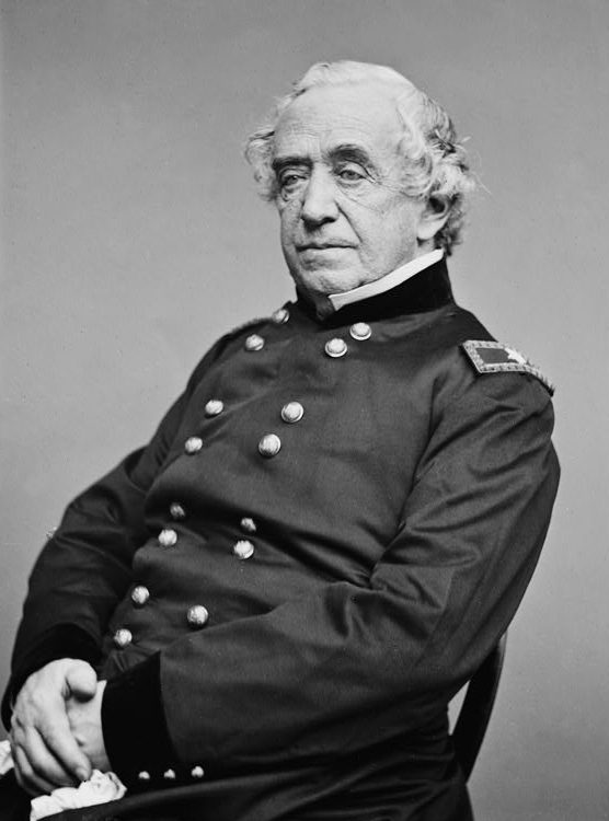 Brigadier General Joseph Gilbert Totten, (1788-1864), Library of Congress